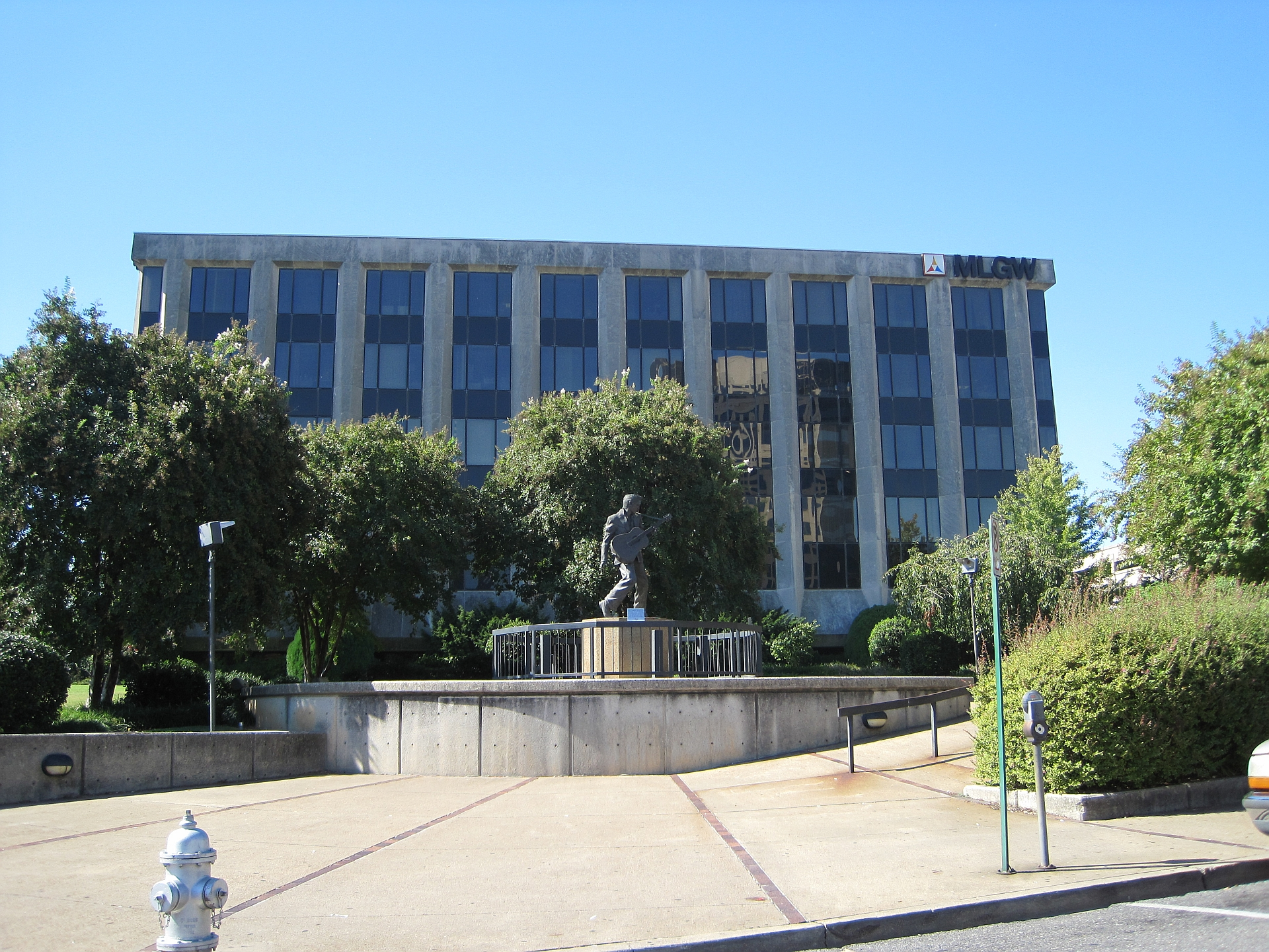 MLGW administration building (David F. Hansen Administration Building) on South Main Street at Beale Street in Downtown Memphis, Tennessee. Elvis Presley statue in the foreground